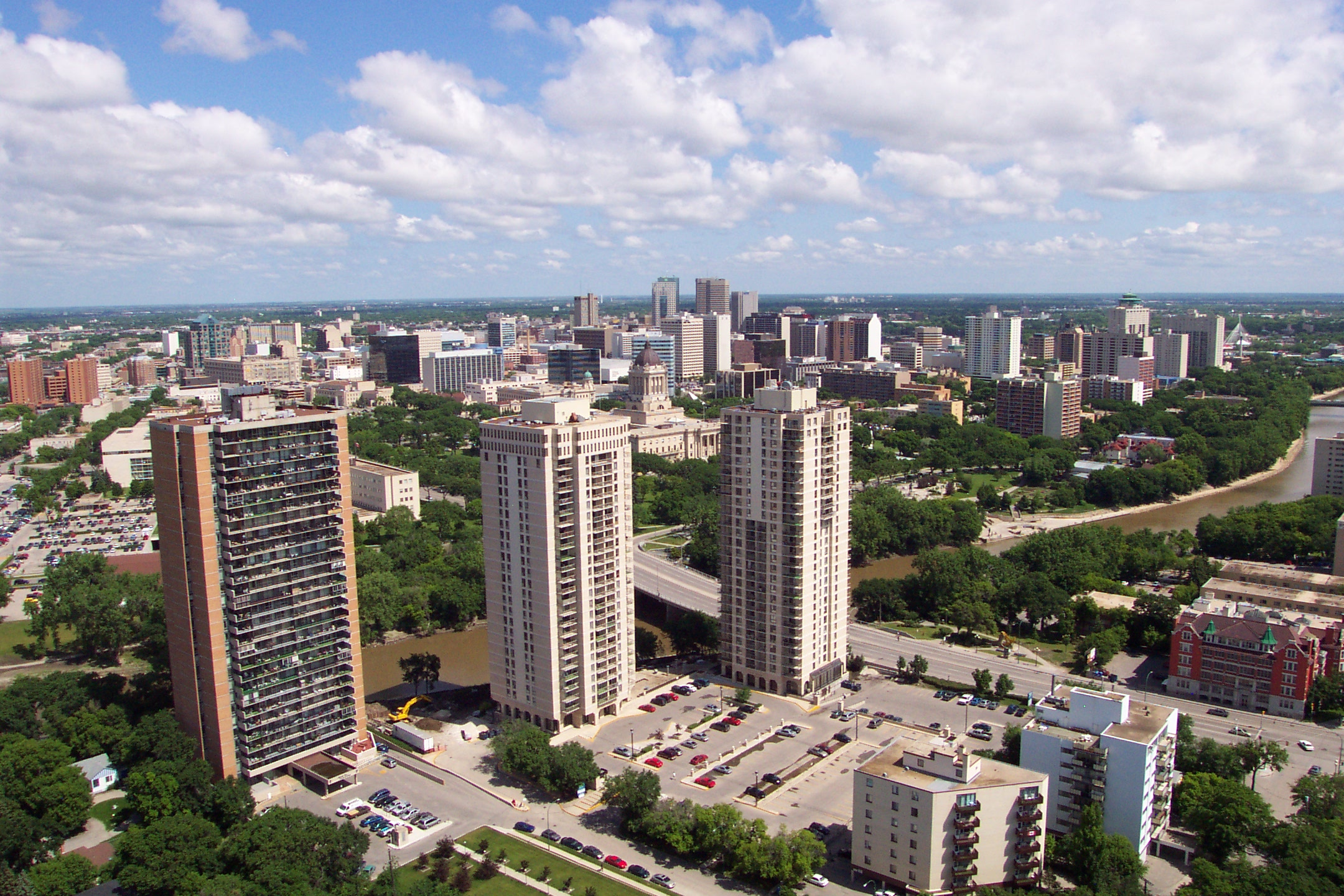 A picture of Winnipeg's downtown area from the south along the top of 55 Nassau. Taken in July 2004 by User:Kcumming.